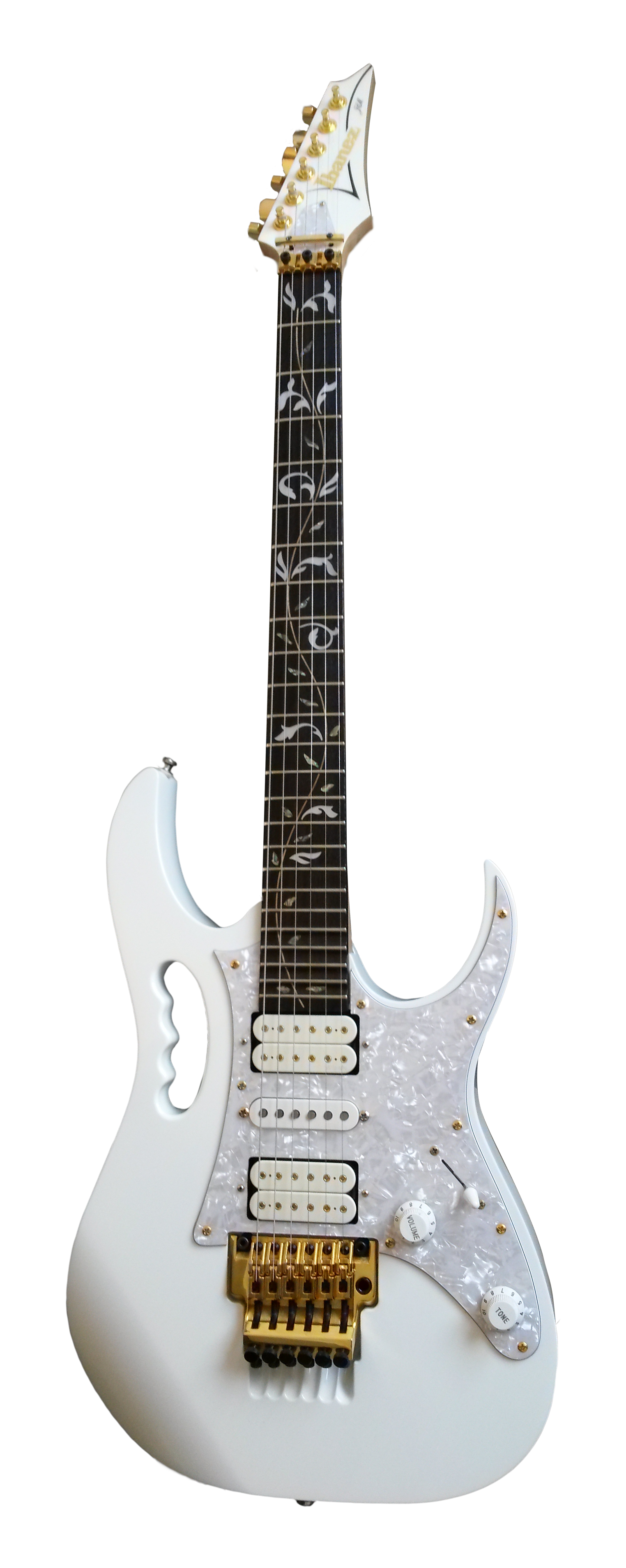 Ibanez Jem 7VWH guitar, 2010 model, standing upright